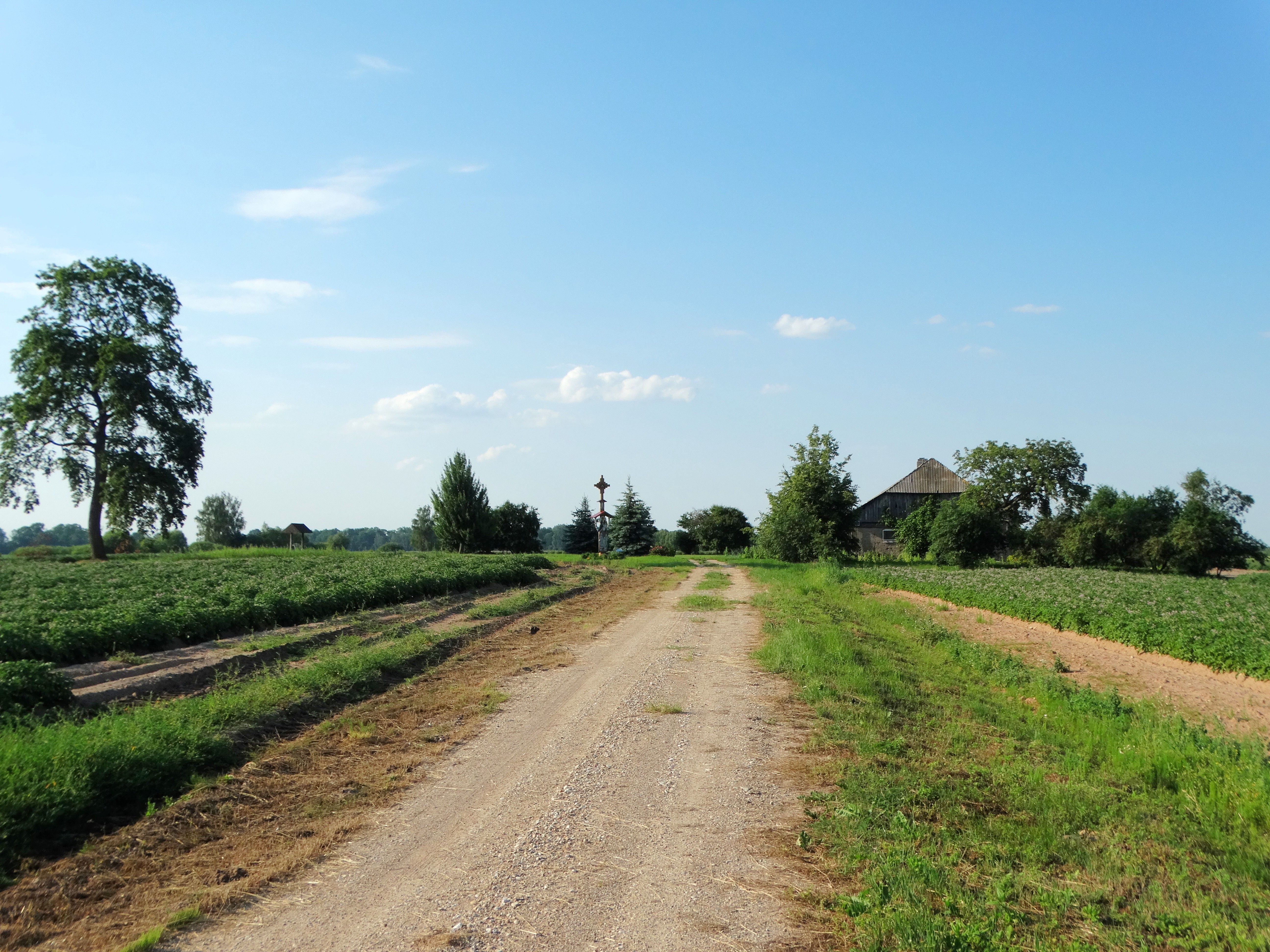 Pramislava, Aukštieji Kapliai, Kėdainiai district, Lithuania